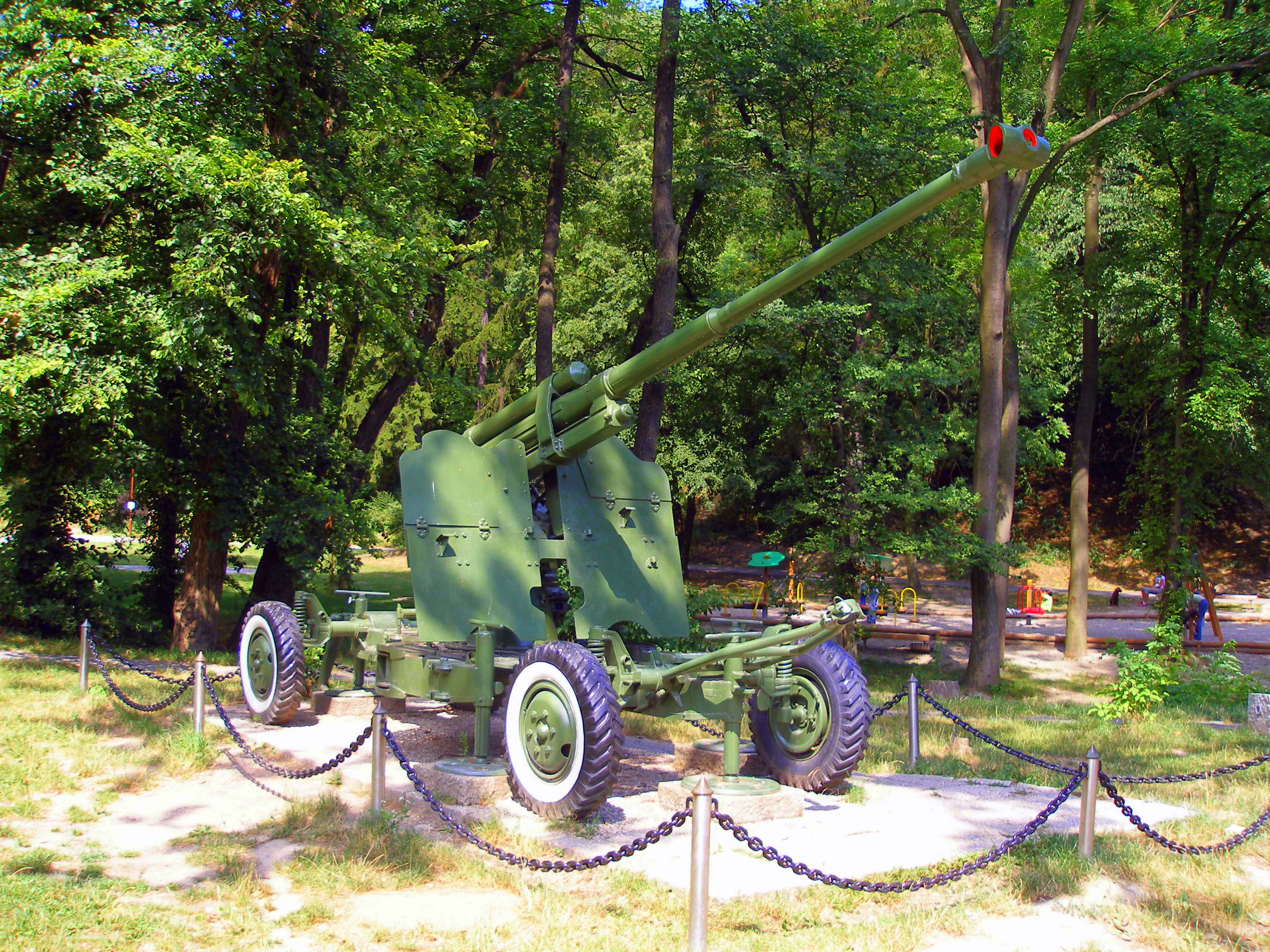 Anti-aircraft cannon